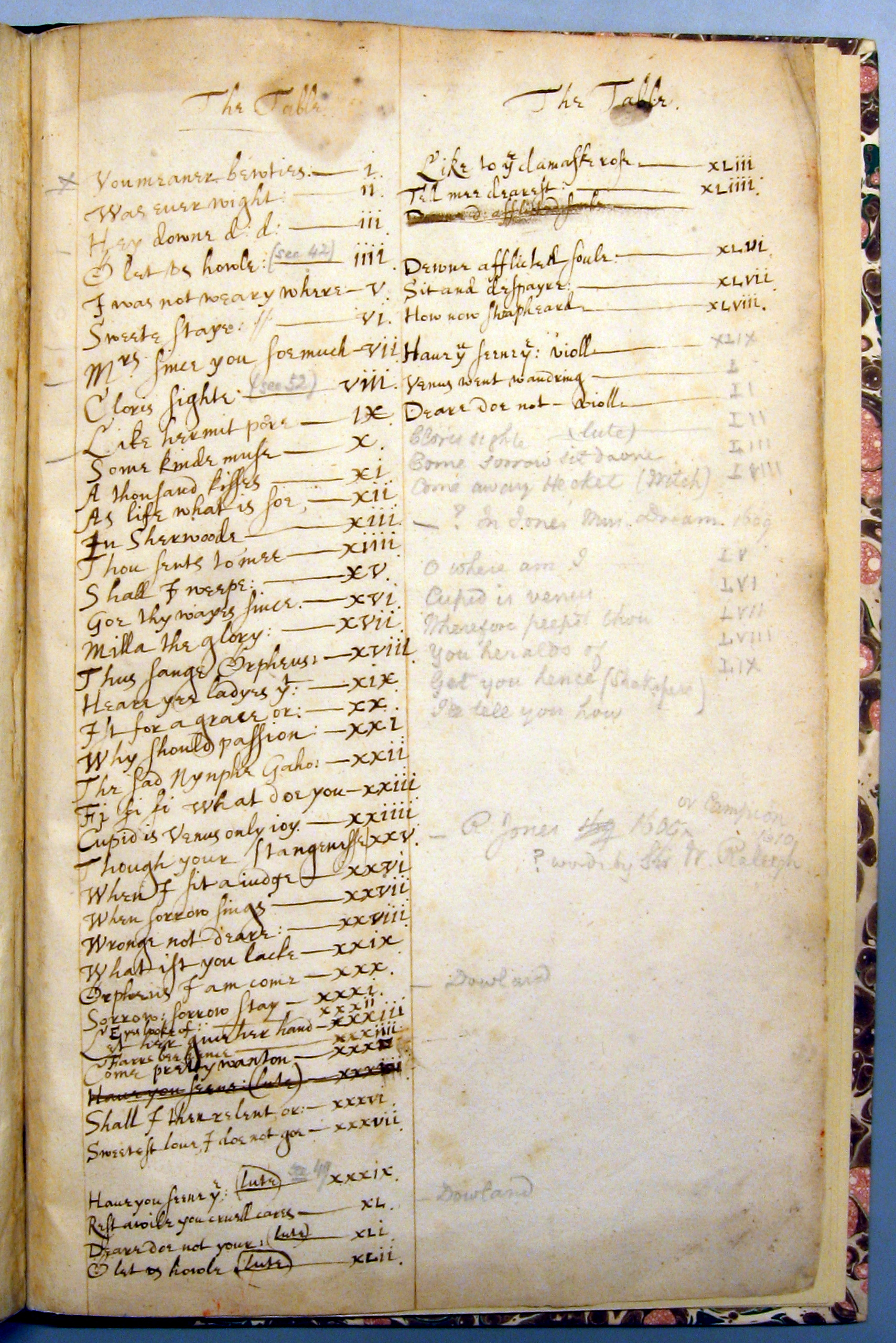 The table of contents on the last leaf of Drexel 4175, a music manuscript which is an important source for seventeen-century English song, belonging to the New York Public Library.